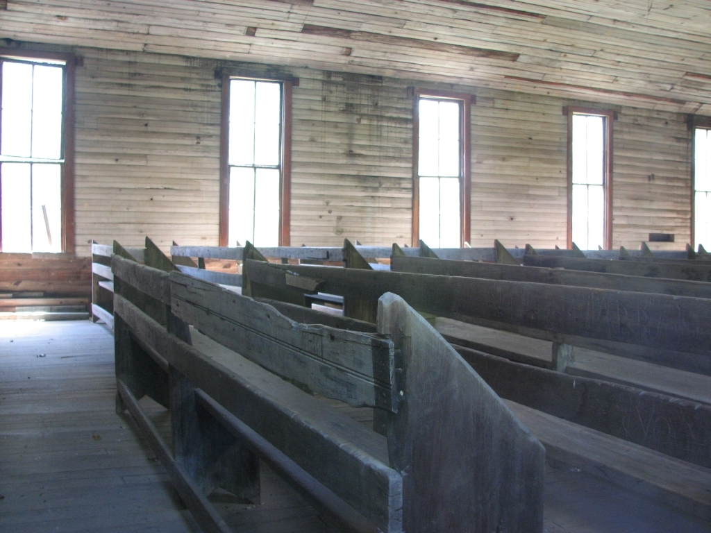 Interior of the Mt. Zion Church located in the "Old 23rd District" of Henry County, Tennessee